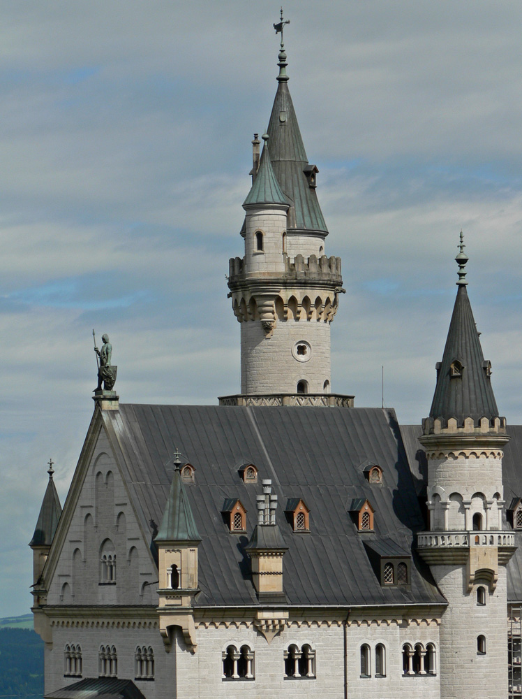 Neuschwanstein's Castle. View from Marienbrücke